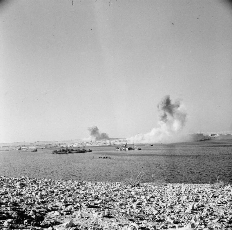 Tobruk 1941 - 1942: German bombs explode during one of the heaviest air raids on Tobruk. The photograph was taken from a trench adjoining an anti-aircraft gun